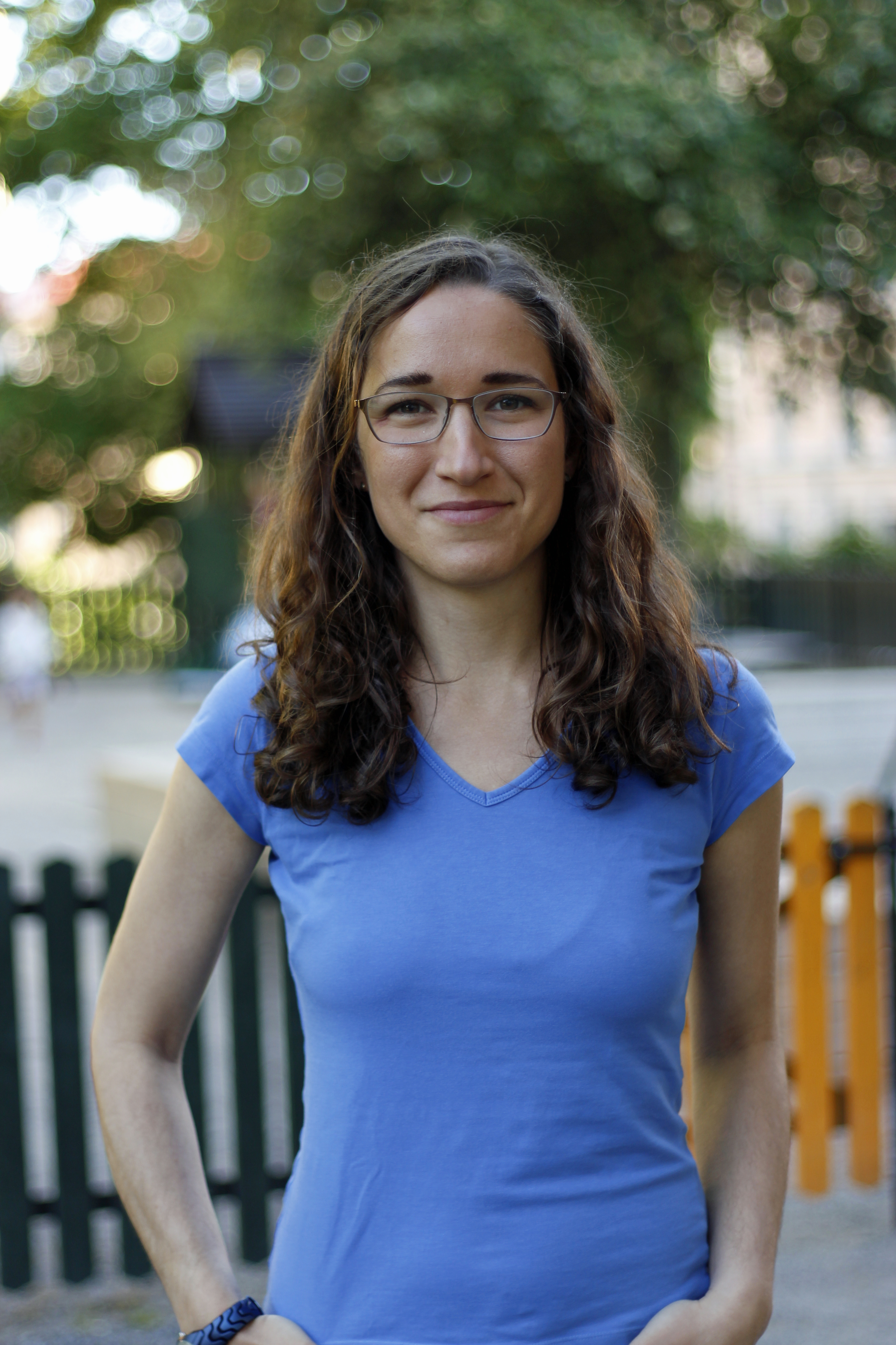 (Laila Naraghi in Tegnérlunden, Stockholm)